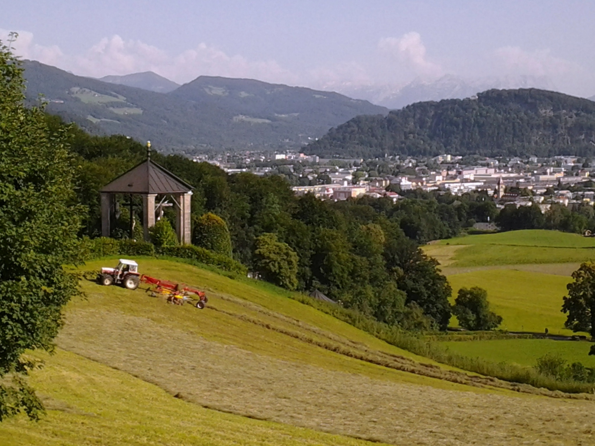 Haying on the Plainberg mountain, municipality of Bergheim, state of Salzburg, Austria; in the back: city of Salzburg